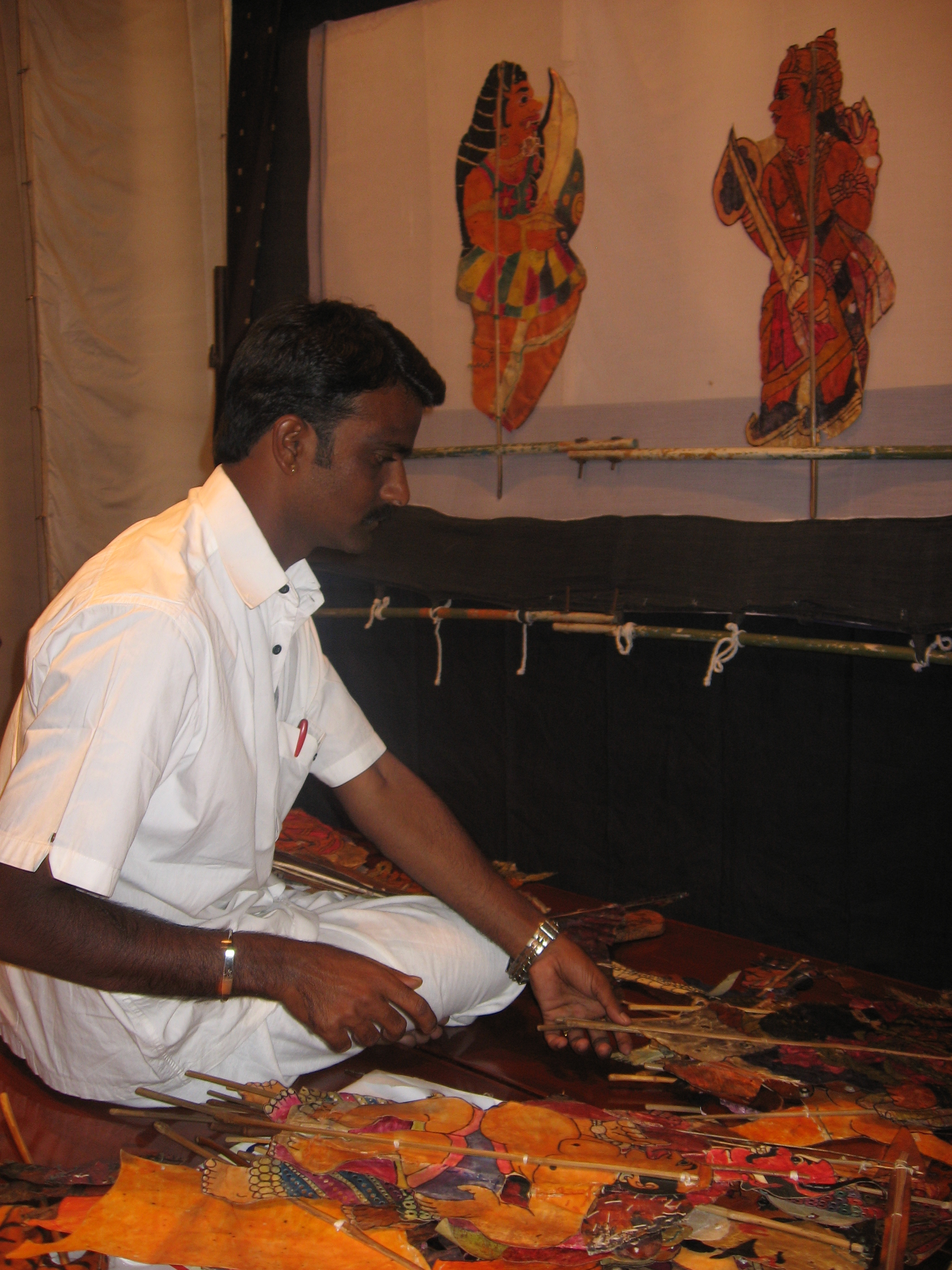 தோல் பாவை நிழற்கூத்திற்கு தயாராகும் கலைஞர்